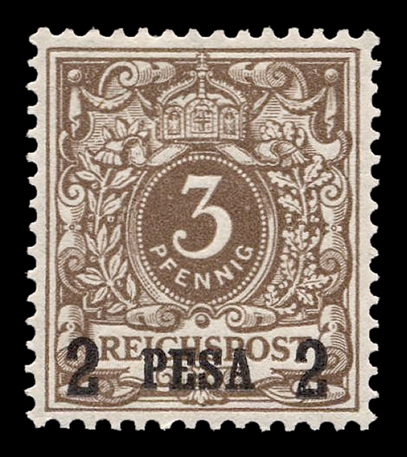 stamp series for German Colonies Ausgabepreis: 2 Pesa First Day of Issue / Erstausgabetag: 1. Juli 1893 Michel-Katalog-Nr: 1 (Deutsche Kolonie Ostafrika)